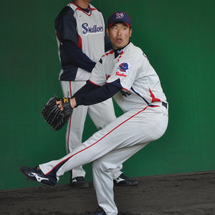 Yuki Shichijo, pitcher of the Tokyo Yakult Swallows, at Urasoe Municipal Baseball Stadium.